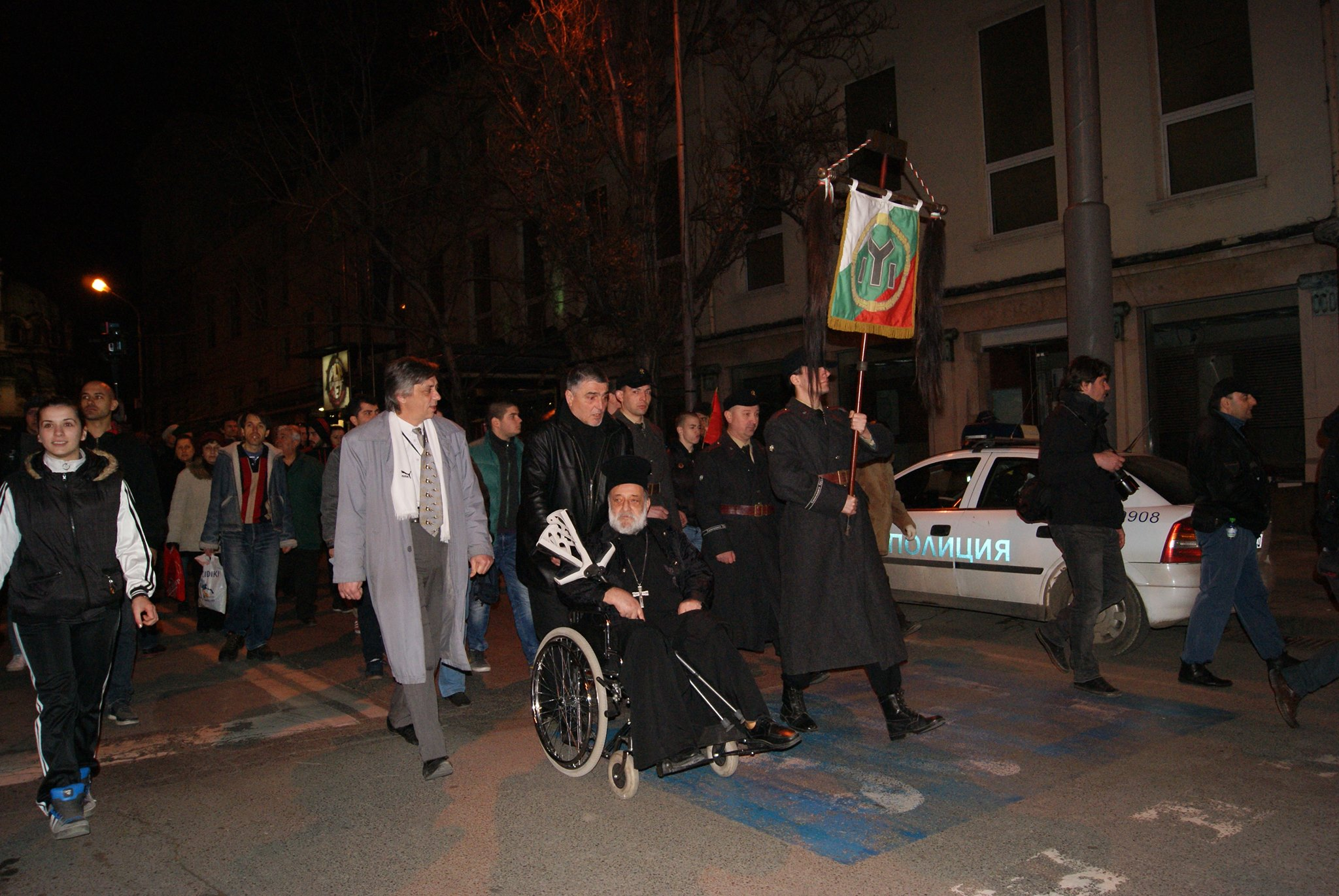 Otets Ambarev Lukovmarsh Sofia 2014